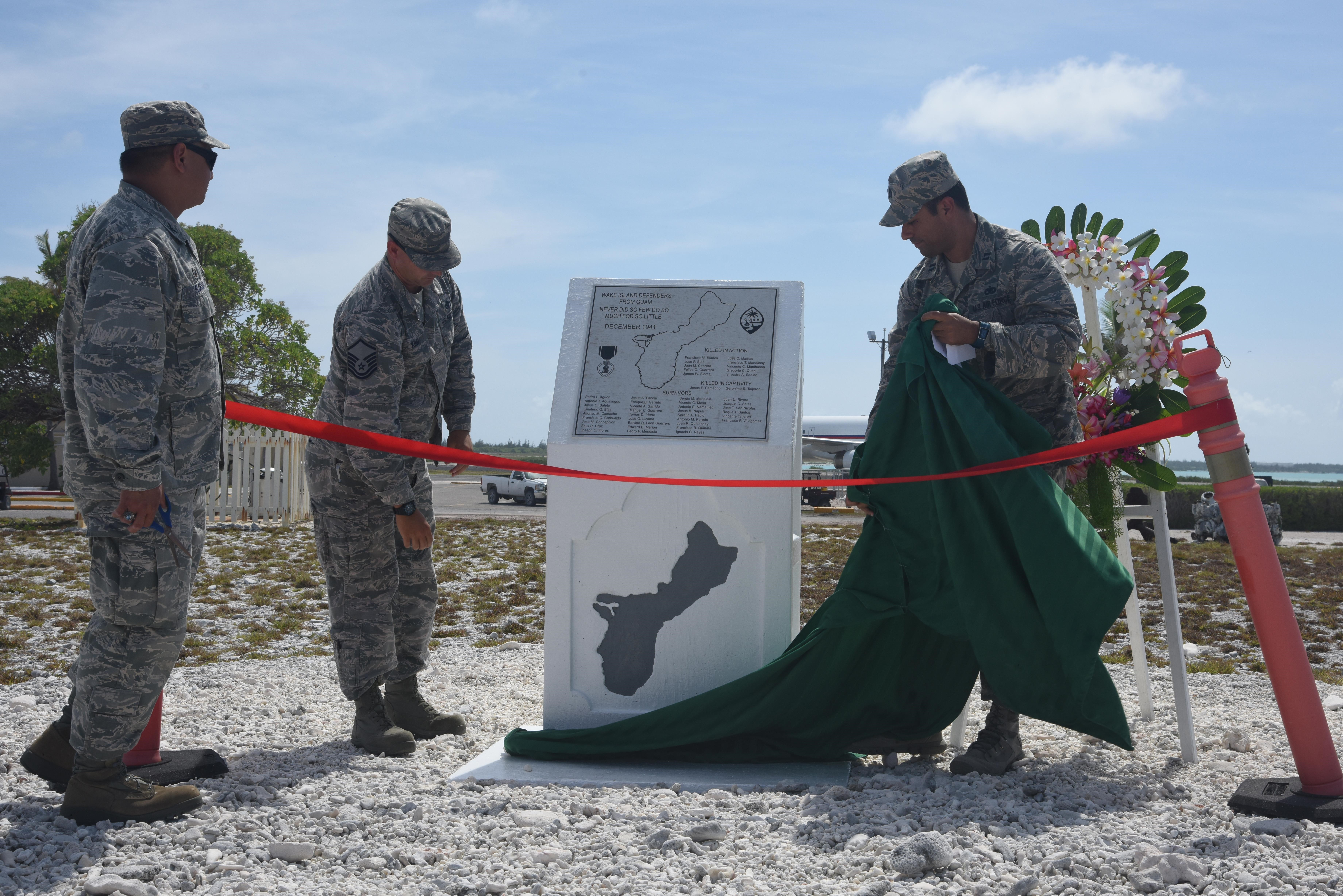 US Air Force Captain Allen Jaime, commander of Wake Island, unveils the new Guam Memorial on June 8, 2017. The memorial honors 45 Chamorros from Guam who worked for Pan American Airlines and were on the island when the Japanese attacked on December 8, 1941. 10 of the men were killed during the attack and the remaining 35 were sent to prison camps in Japan and China.